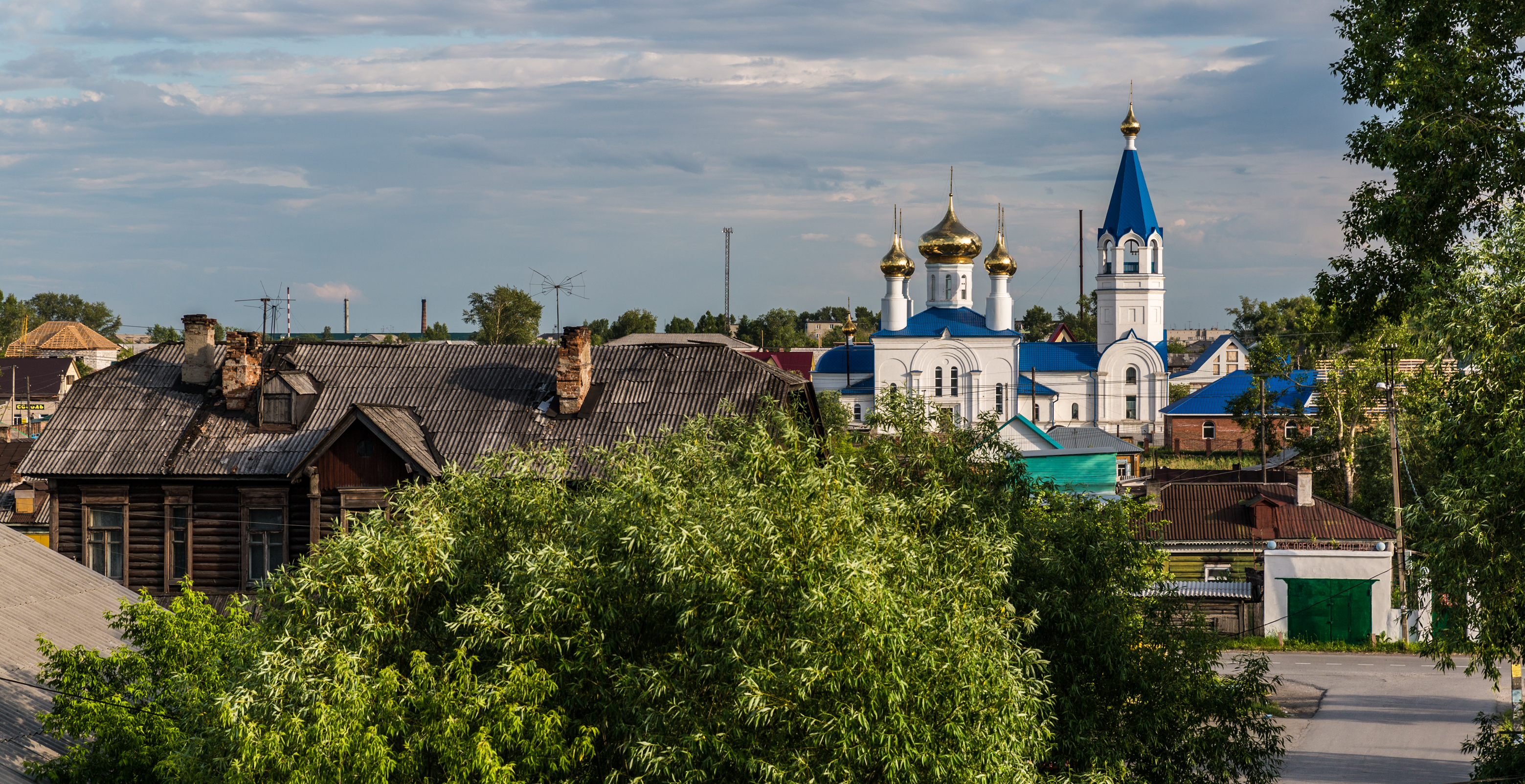 Evening in Barabinsk, Siberia, Russia. Barabinsk is a small city on the Trans-Siberian Railway between Omsk and Novosibirsk. Thank you all for your views, faves and comments!